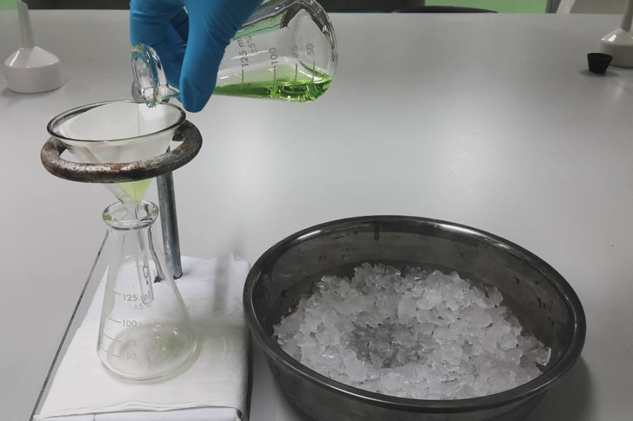 This image shows the process of Cold Filtration, where the ice bath is used to cool down the temperature of the solution before undergoing the filtration process.